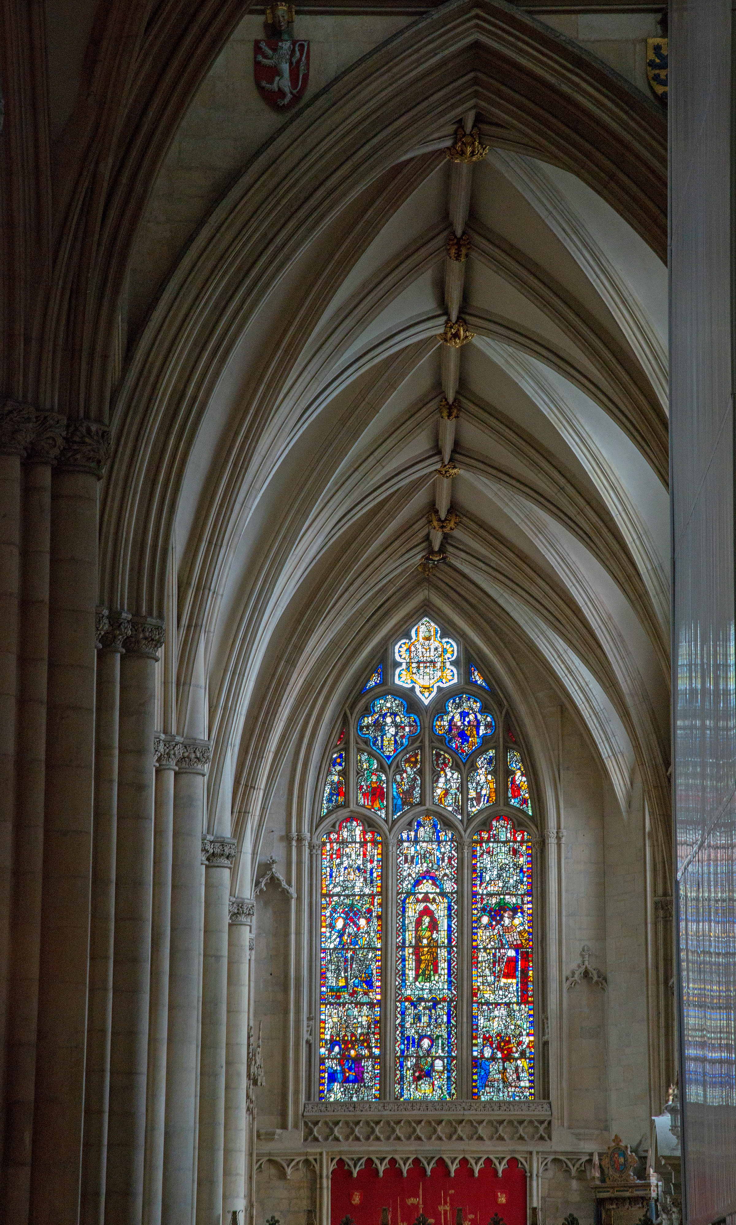 Another of the numerous stained glass windows in the Minster